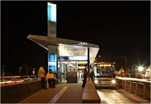 Ahmedabad Bus Rapid Transport Transit BRT BRTS